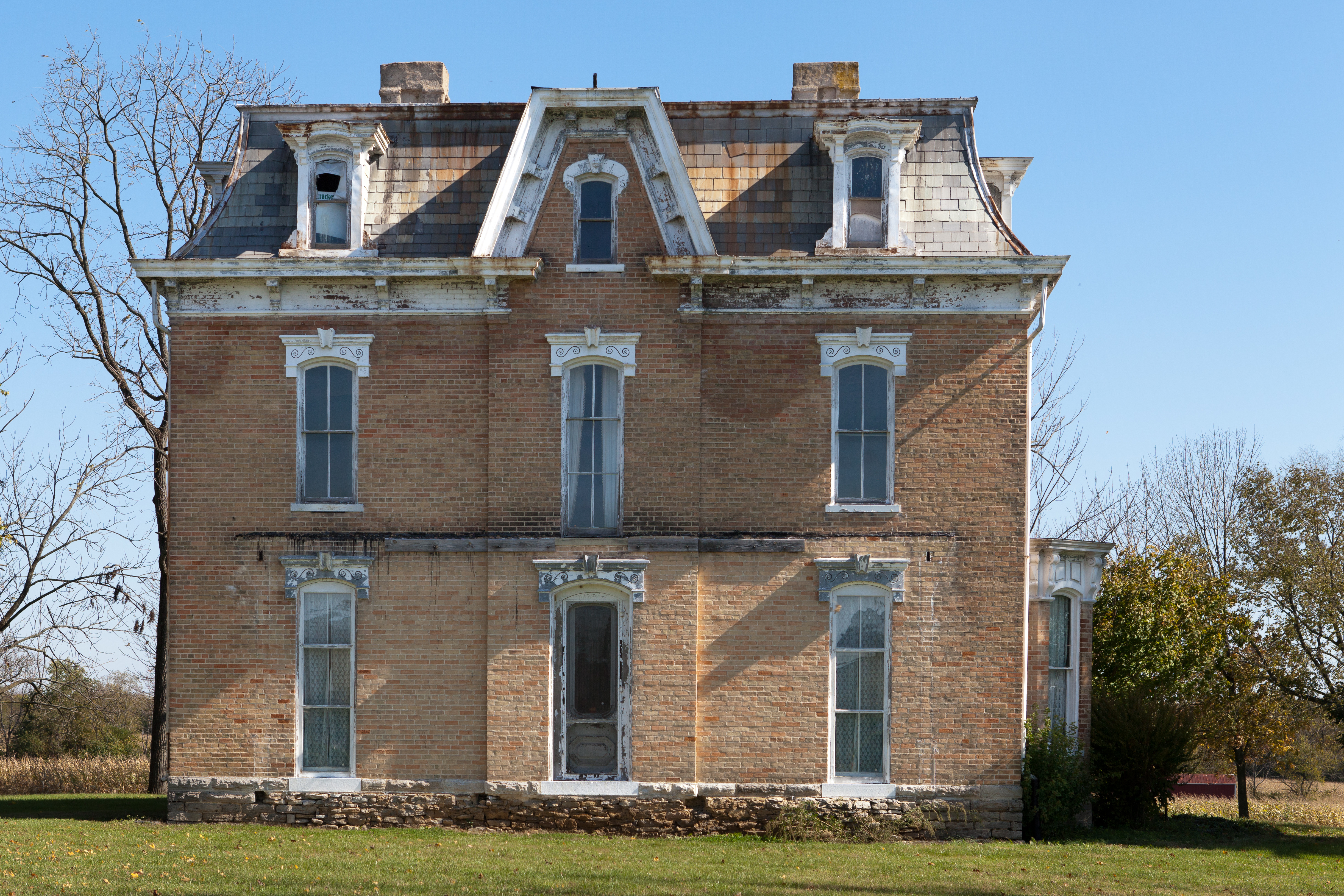 Daniel L. Deardoff Housem a Second Empire style historic building builtin 1833, located at 4374 Union Road, Warren County, Ohio.